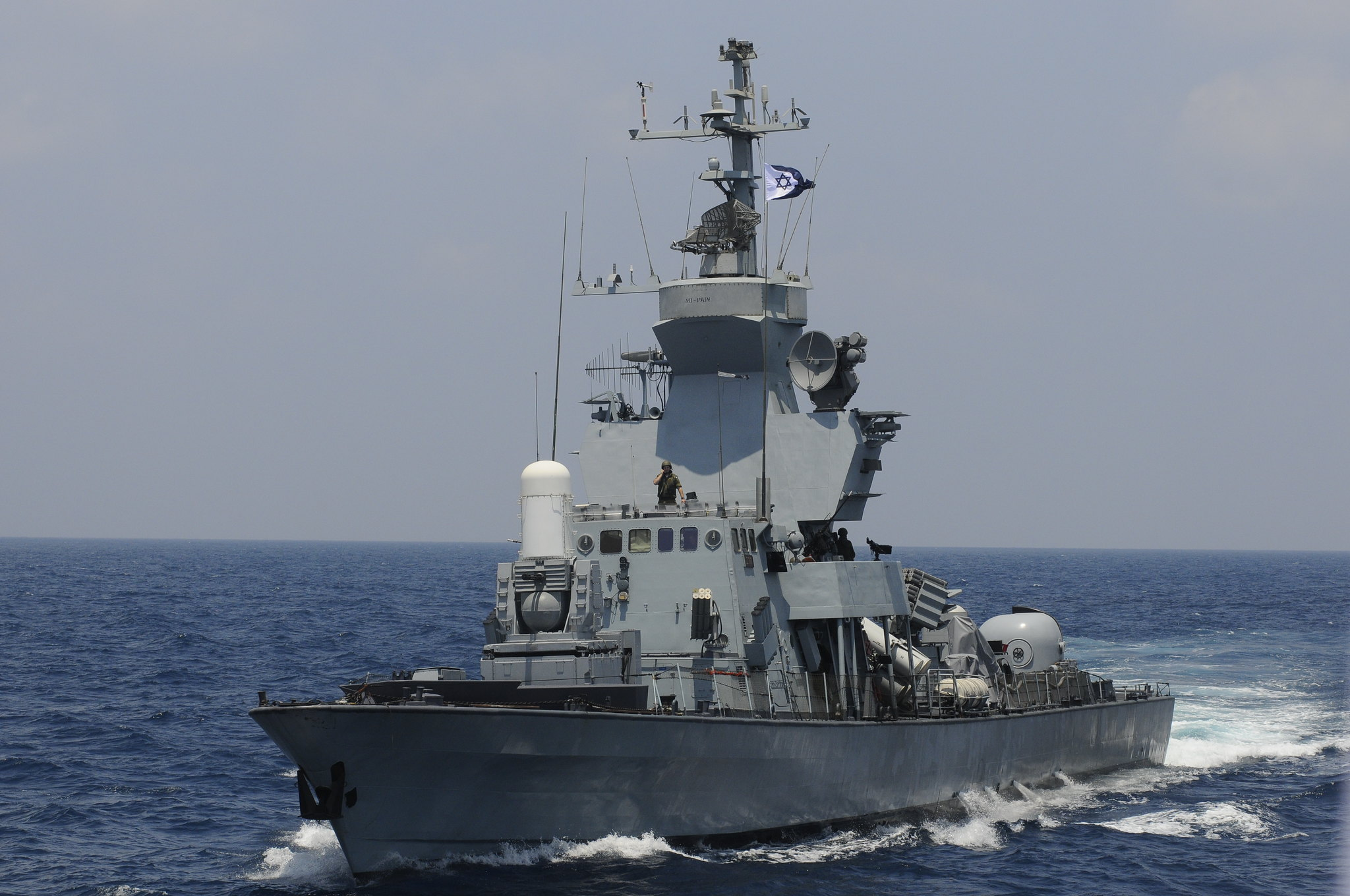 Saar 4.5 Missle Ship. Our missle ships are prepared for any mission, any time.